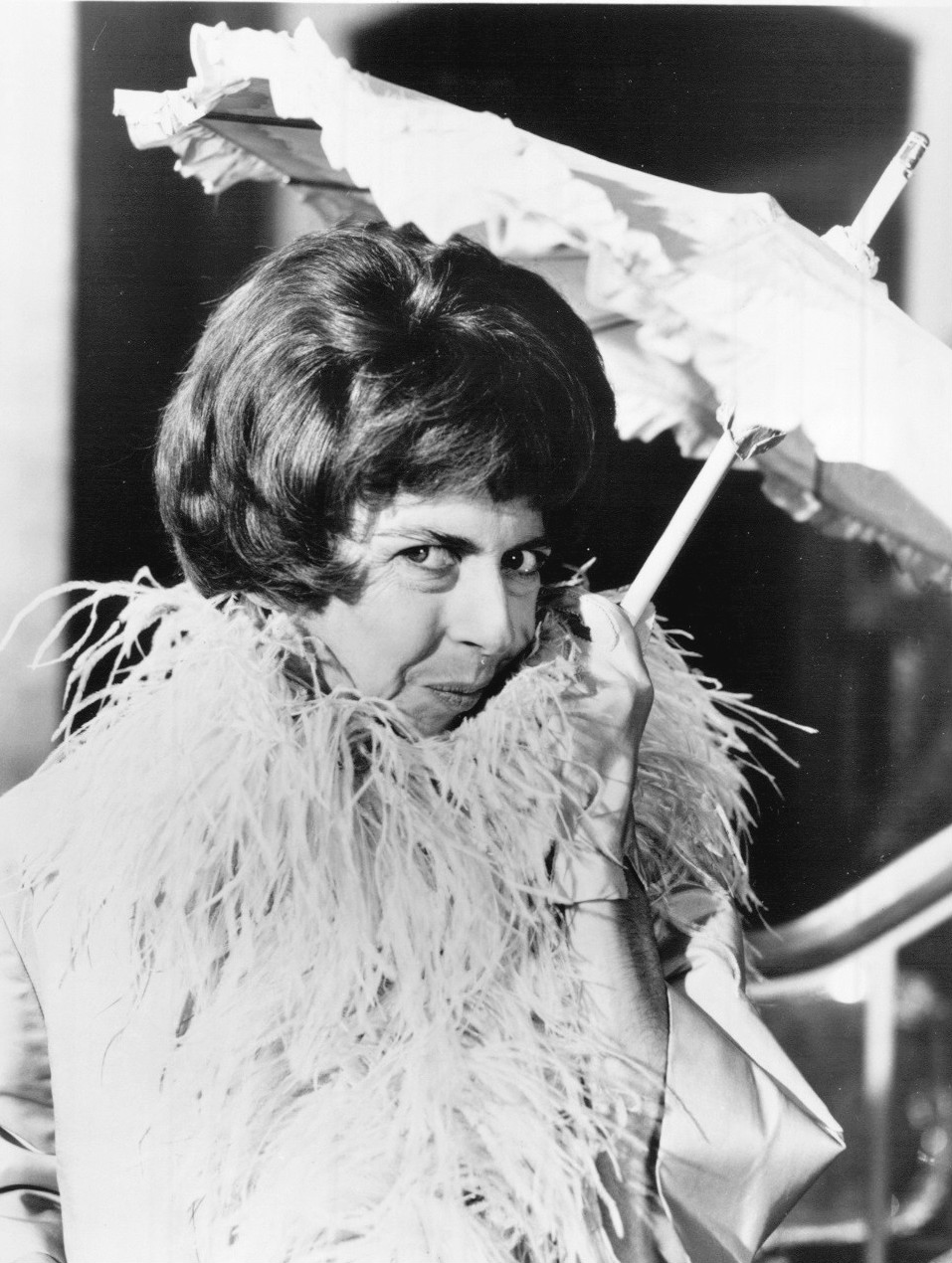 Photo of Alice Pearce as Gladys Kravitz, the nosy neighbor from the television series Bewitched. Pearce played the role from the beginning of the series in 1964 until her death in 1966.